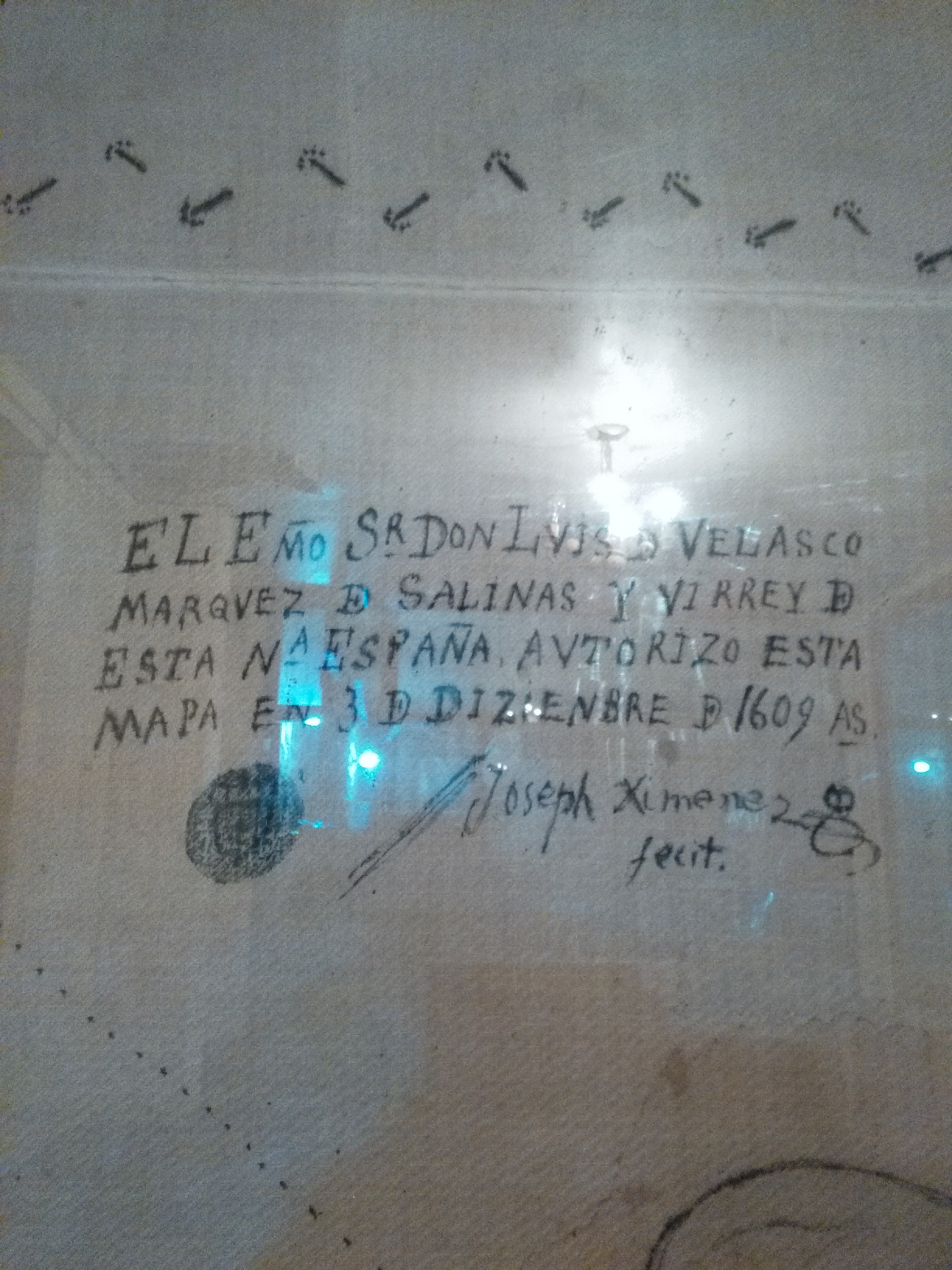 Seal of the viceroy Luis De Velazco where he approves the creation of the map